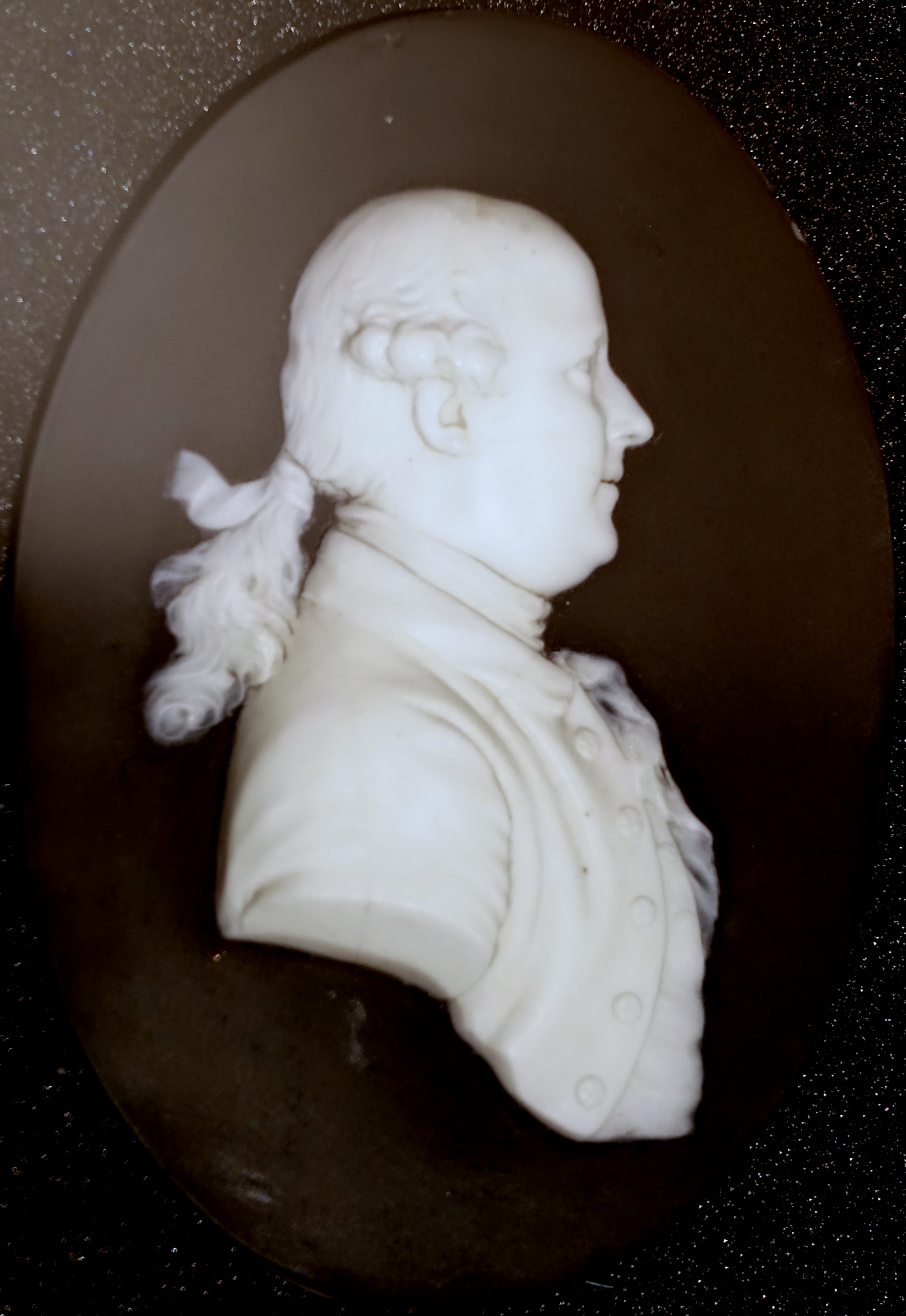 Exhibit in the Wedgwood Museum - Barlaston, Stoke-on-Trent, England.